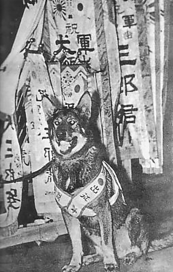 Imperial Japanese Army War dog "Saburo"